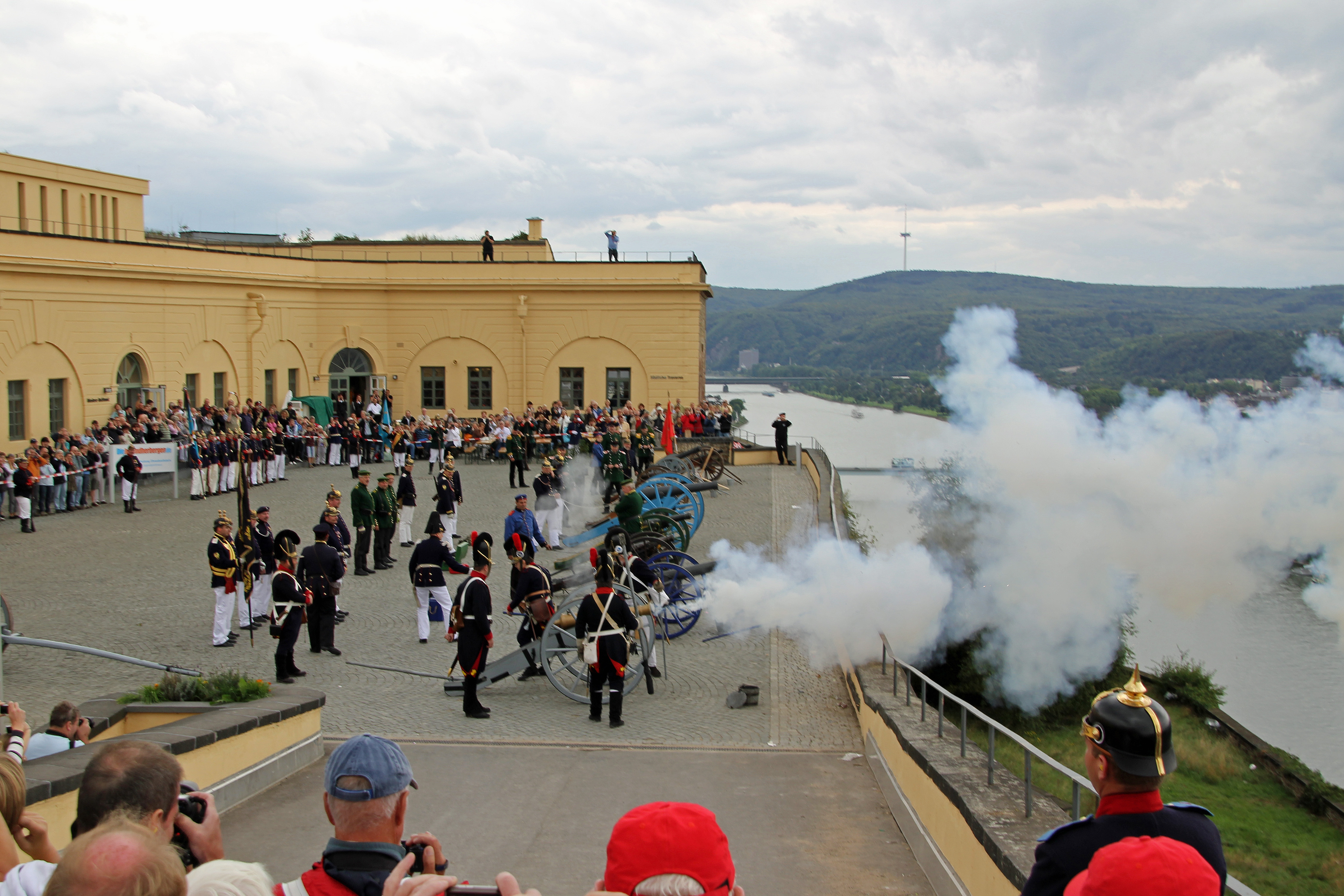 Federal Horticultural Show 2011 in Koblenz